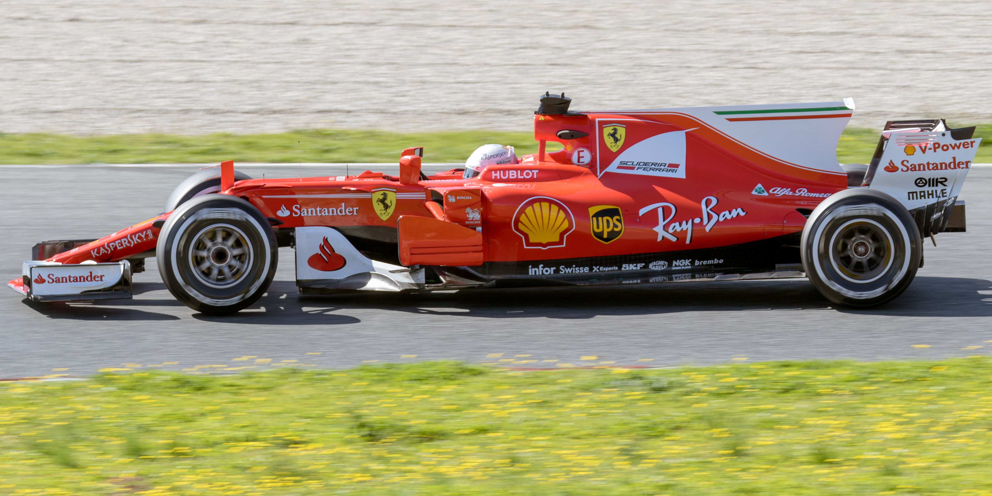 Formula One 2017 Catalonia test (27 February-2 March): Sebastian Vettel (Ferrari)